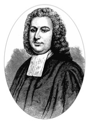 Daniel Dulaney the Younger by an unknown engraver. "Daniel Dulany (the Younger) owned property that eventually comprised the city of Frederick as well as a portion of the Best Farm."